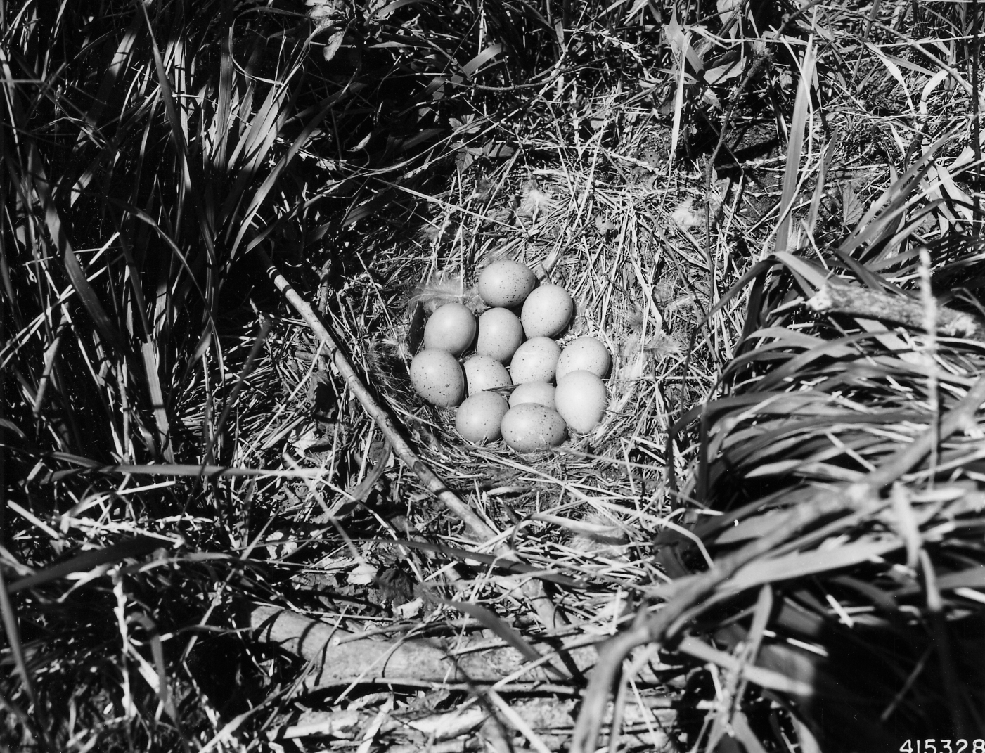 Scope and content: Original caption: Nest and eggs of a sharp-tailed Grouse.